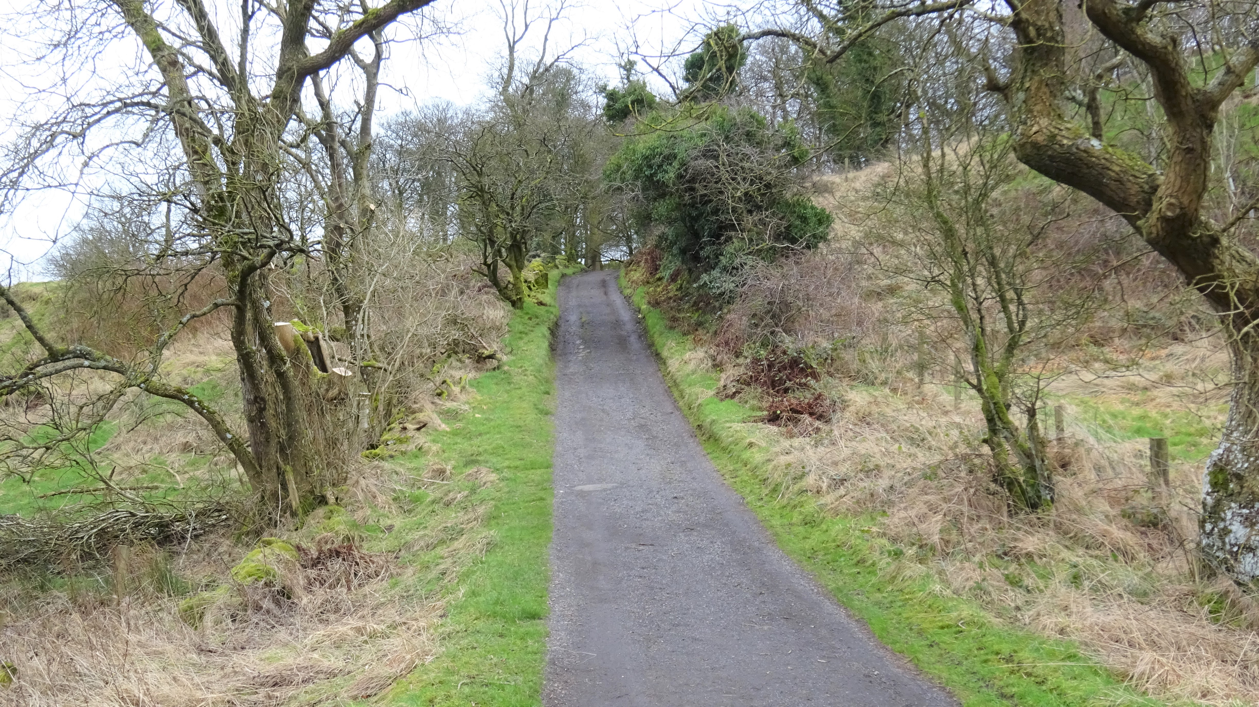 The access Lane to Templehouse, Dunlop, East Ayrshire.